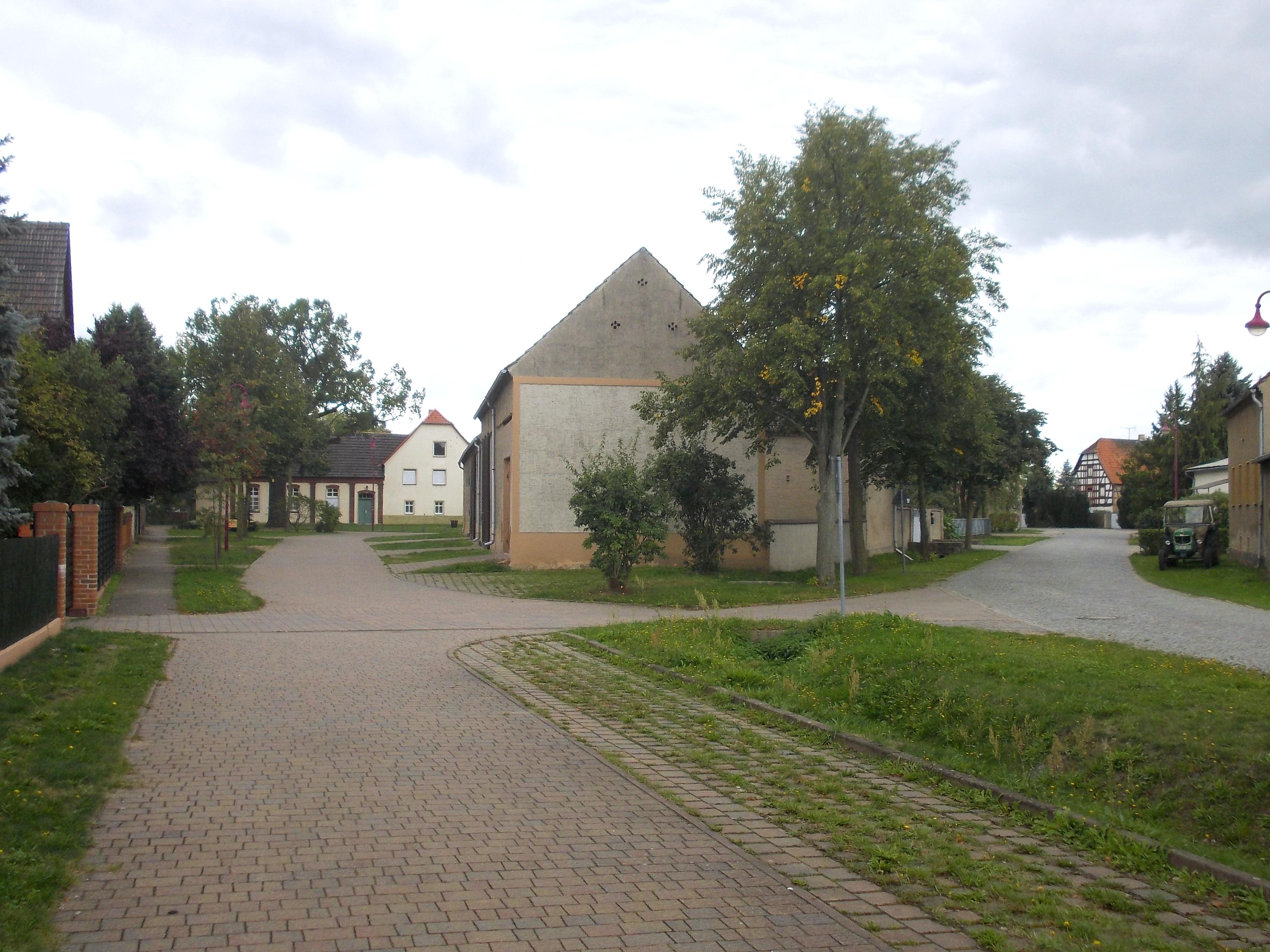 Lindenstrasse in Rehfeld (Falkenberg/Elster, Elbe-Elster district, Brandenburg)